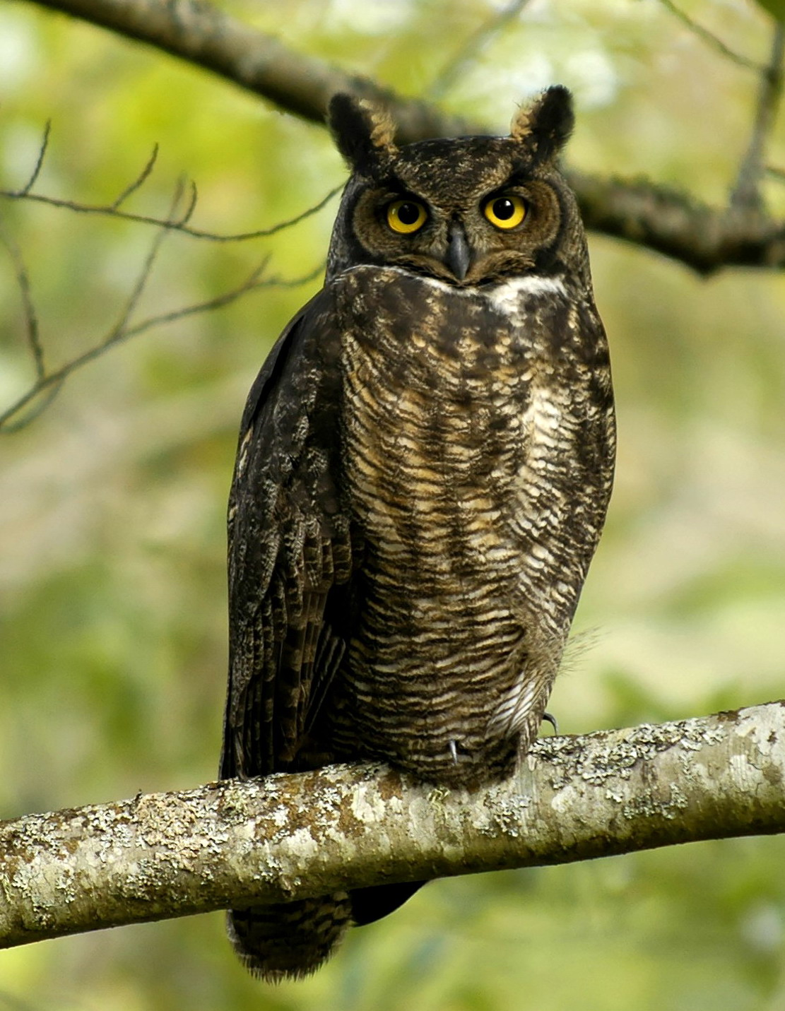 A Great Horned Owl at George C. Reifel Migratory Bird Sanctuary. Delta, BC, Canada.